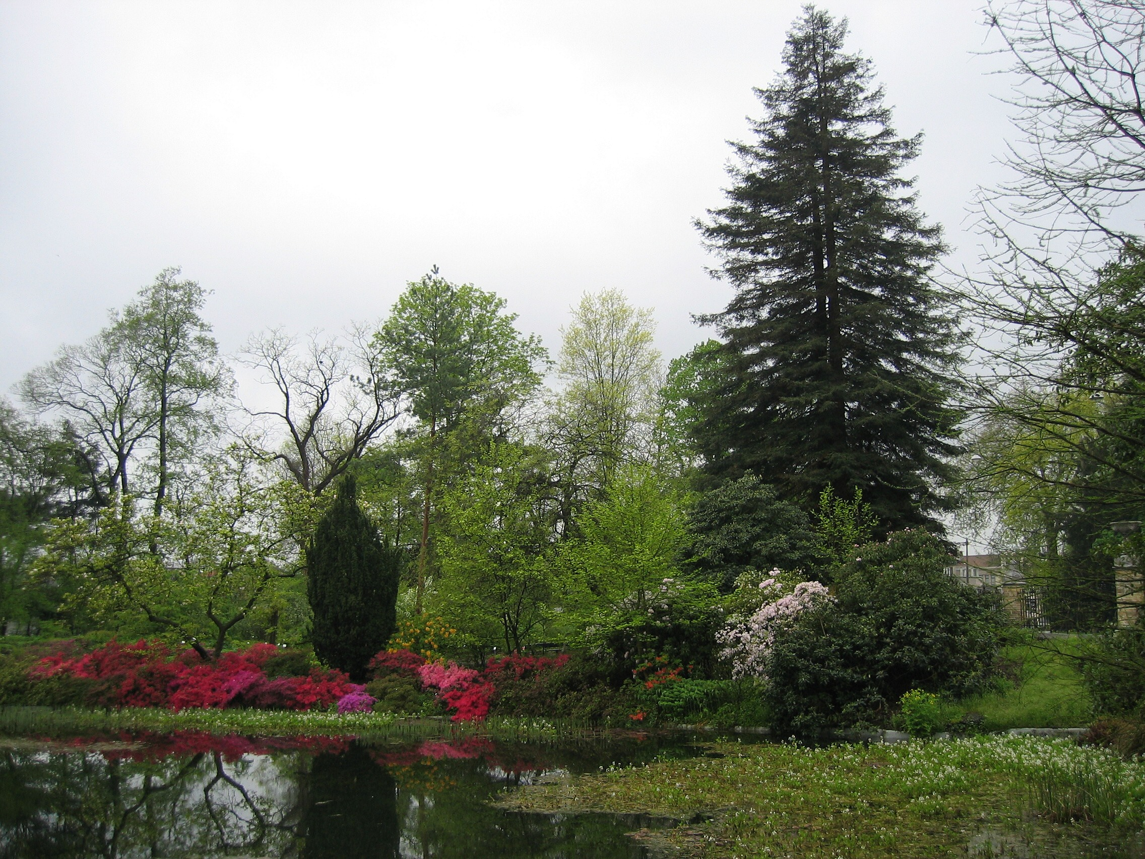 Botanical Garden of the University of Ghent. Picture by Tim Bekaert. Part of the arboretum and the pond is visible. The trees on the right are specimens of Sequoia sempervirens.